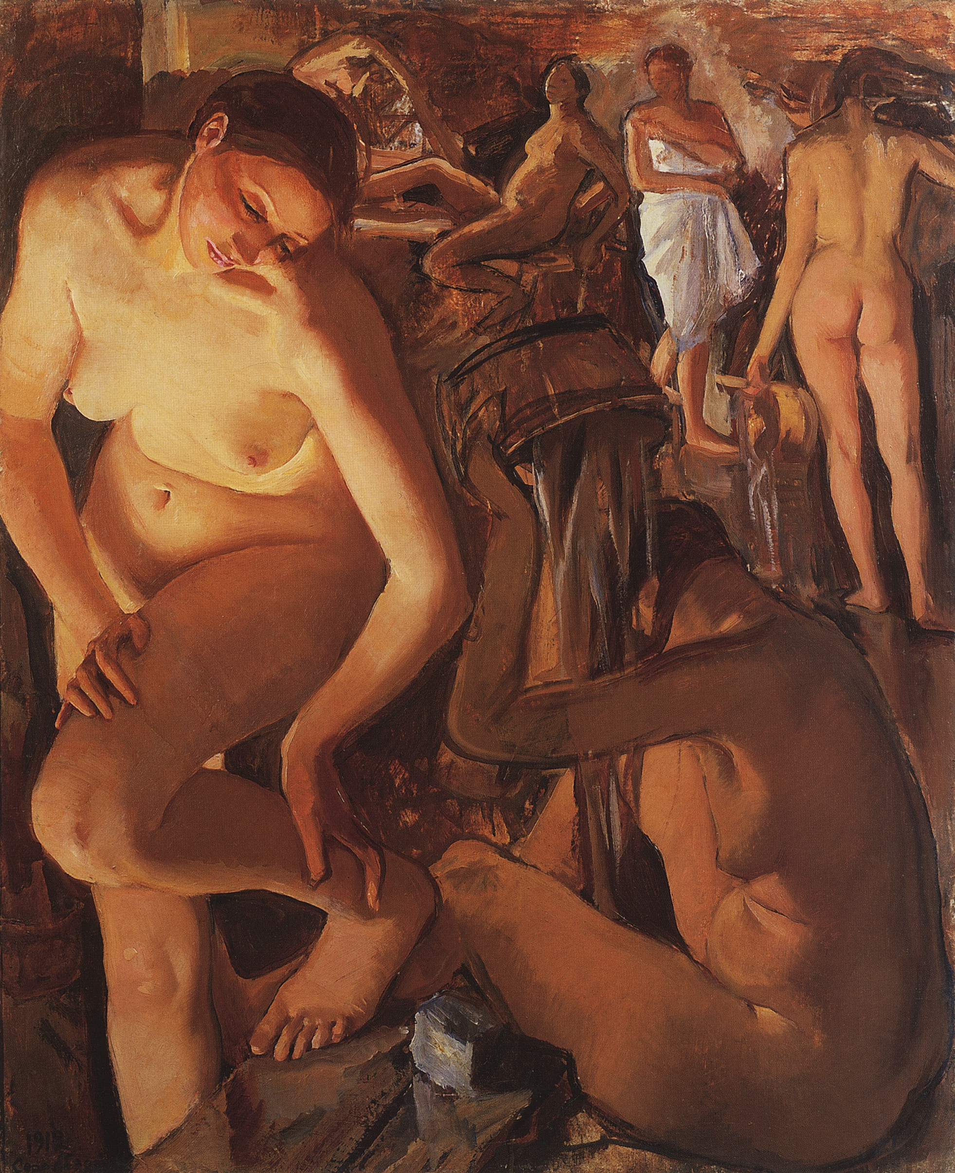 The bath-house (study by Zinaida Serebriakova, 1912)